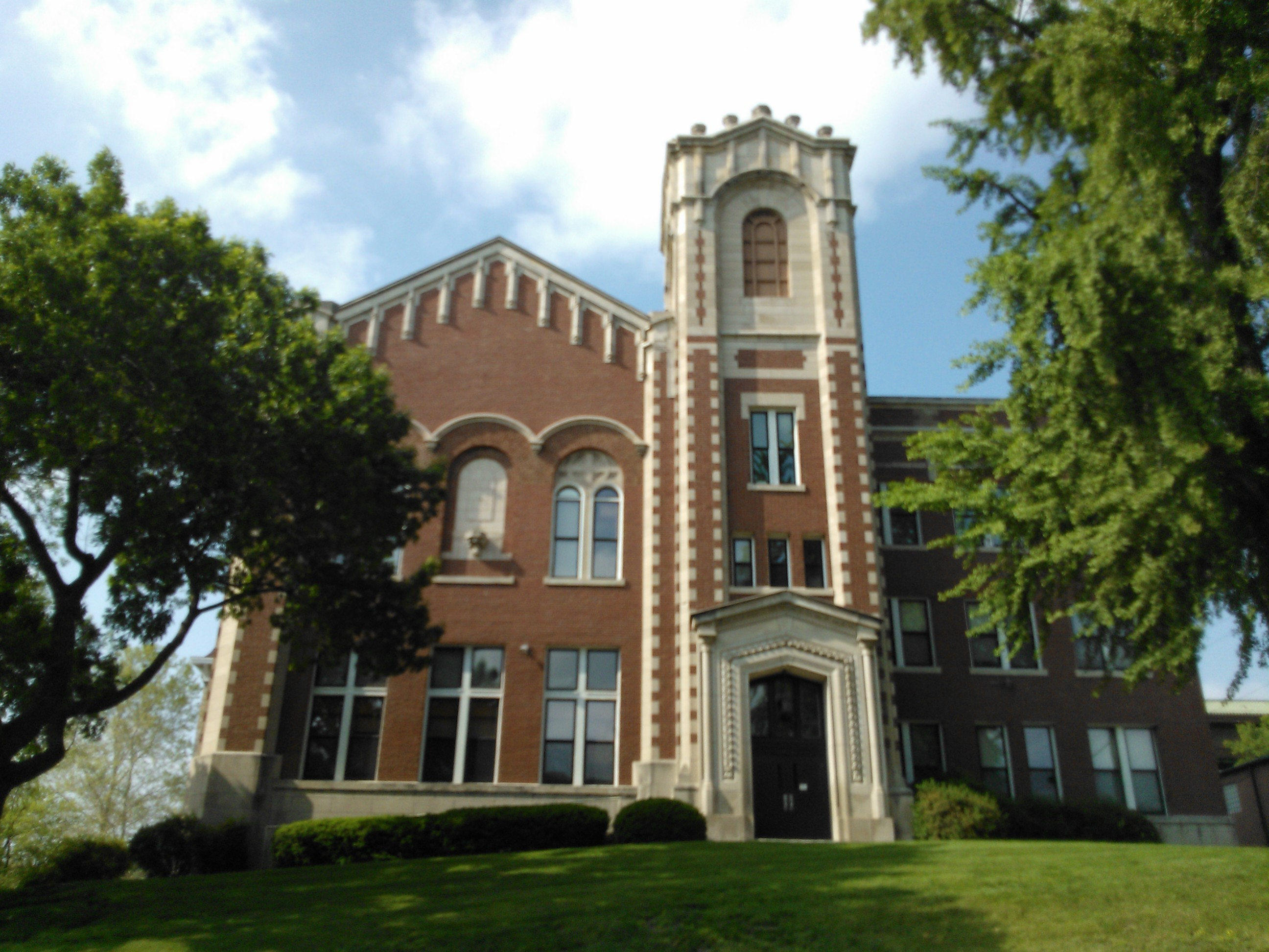 Former Immaculate Conception Academy located in Davenport, Iowa It is now a part of Palmer College of Chiropractic.